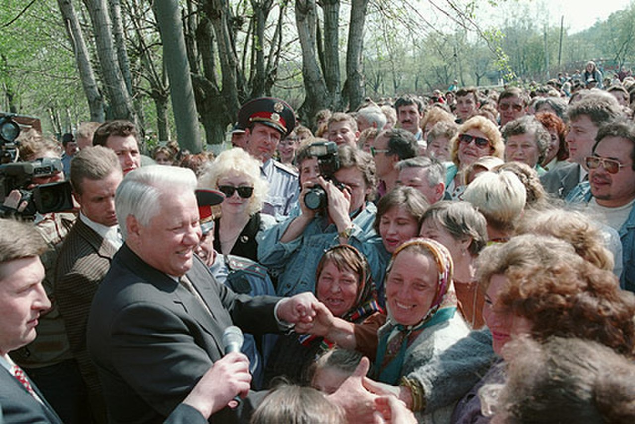 ATEPTSEVO, NARO-FOMINSKII DISTRICT, MOSCOW REGION. President of the Russian Federation Boris Yeltsin\'s pre-electoral trip to the Moscow region.